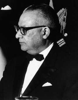 Rómulo Betancourt, December 19, 1961.